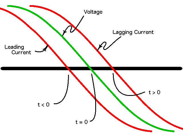 Graph showing a voltage with its associated leading and lagging current, plotted against time. All curves are sinusoidal. Current is shown with the same amplitude as the voltage merely as an illustration.